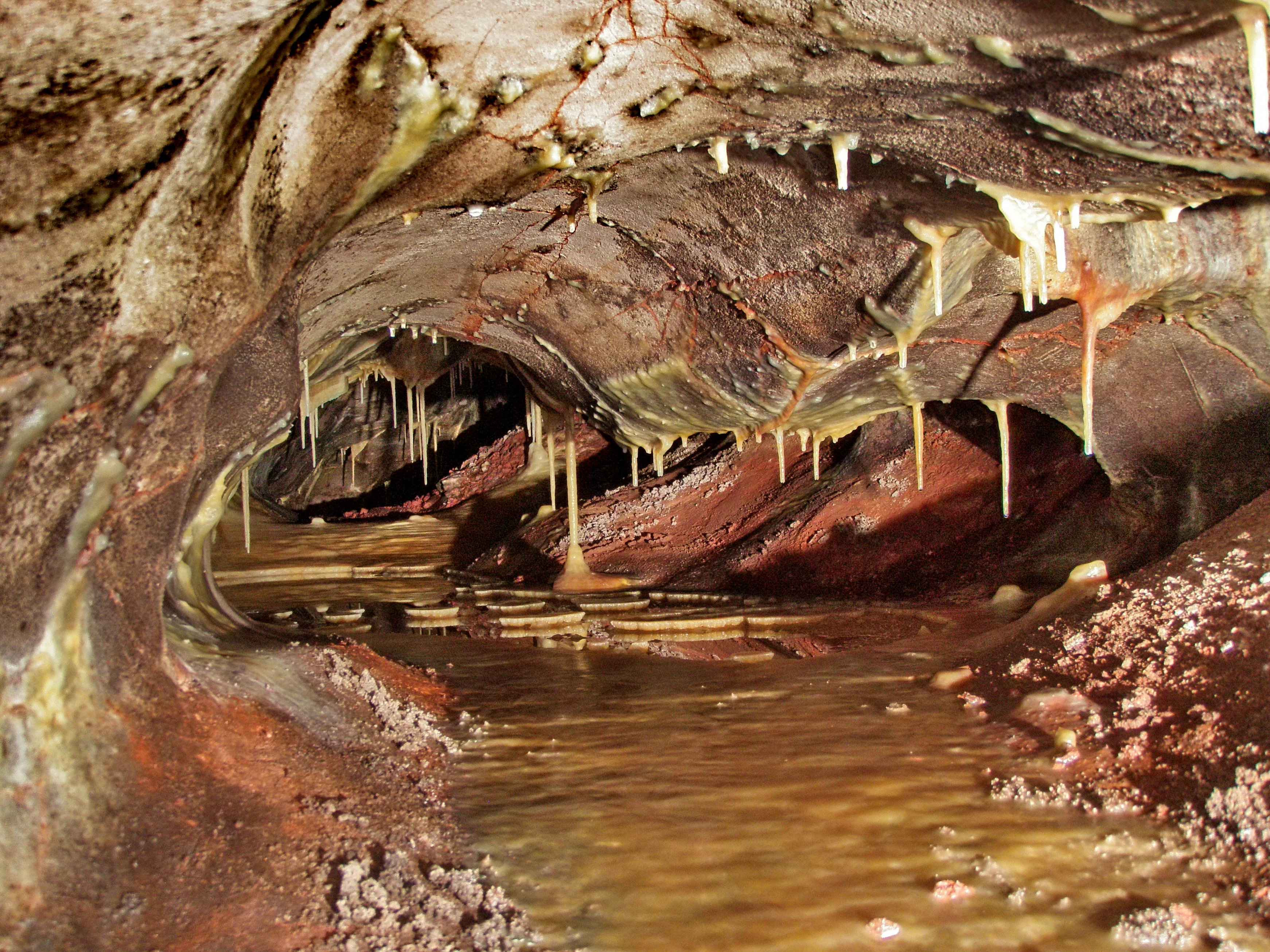 Skyway Lake, stalactites, Wind Cave